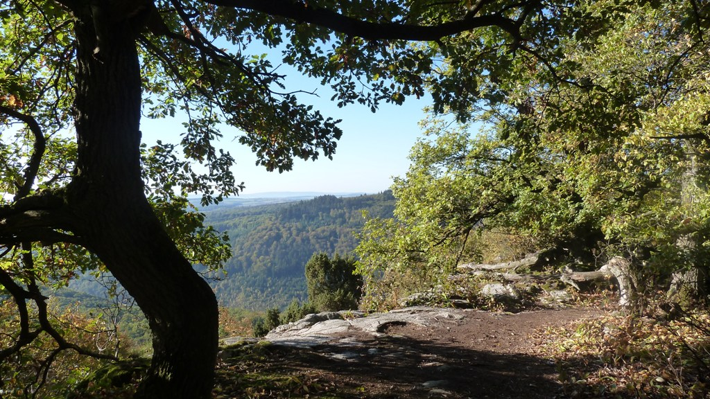 View from above the Simmerbach valley